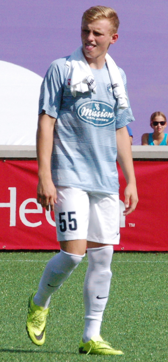 Aedan Stanley Taken during a USL regular season match between FC Cincinnati and Saint Louis FC at Nippert Stadium in Cincinnati, USA on September 5, 2016.